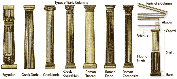 Parts of the column and as they were created by ancient Egyptians, Greeks and Romans. Image adapted 2006 Sharon Mooney, Abacus in Architecture, from the original in World Book Encyclopedia ©2002 by Sarah Woodward. Image may be redistributed on condition all respective credits remain intact. Summary Parts of the column and as they were created by ancient Egyptians, Greeks and Romans. Image adapted 2006 Sharon Mooney, Abacus in Architecture, from the original in World Book Encyclopedia ©2002 by Sarah Woodward. Image may be redistributed on condition all respective credits remain intact.